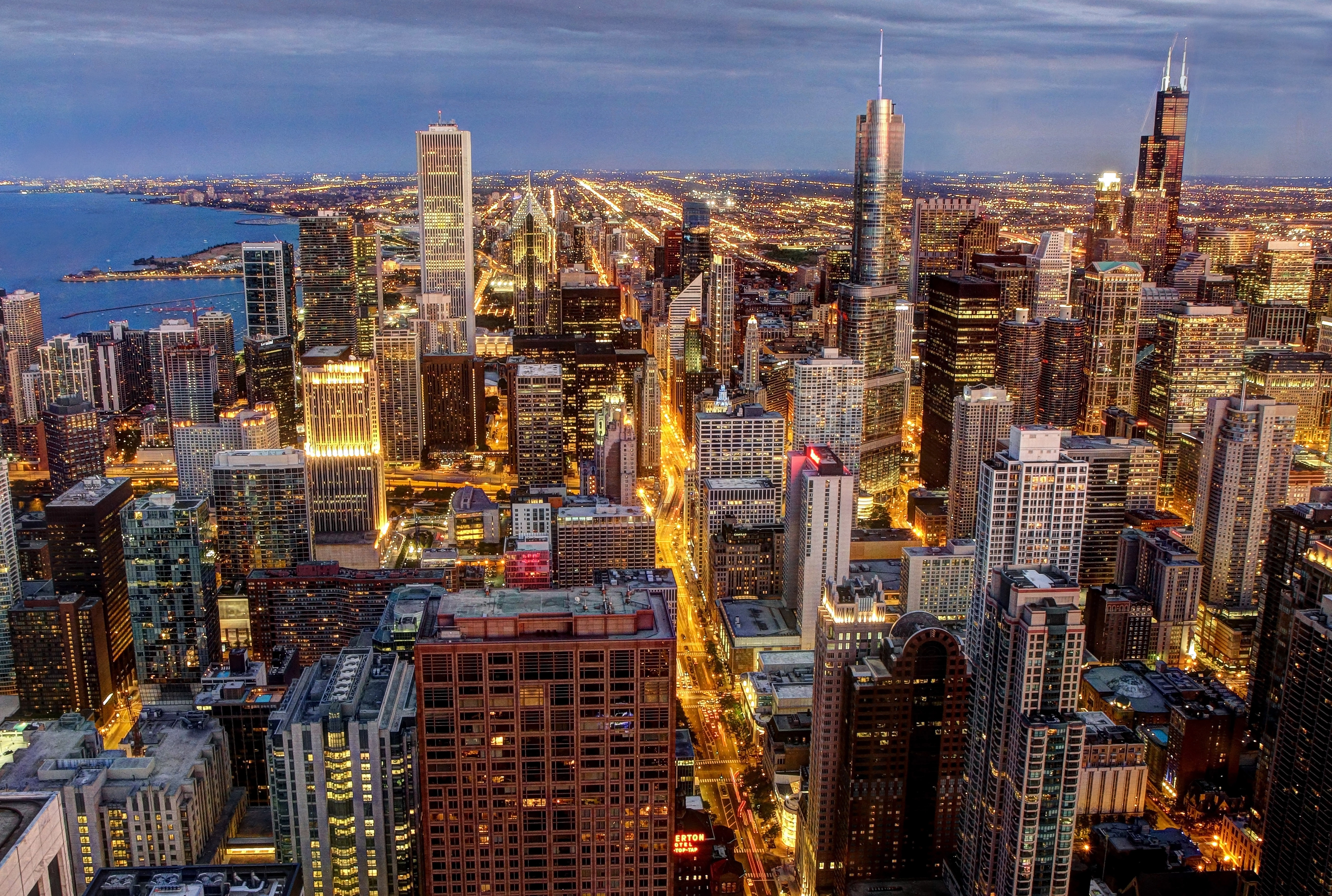 Chicago skyscrapers July 10, 2012, from John Hancock Center looking south.